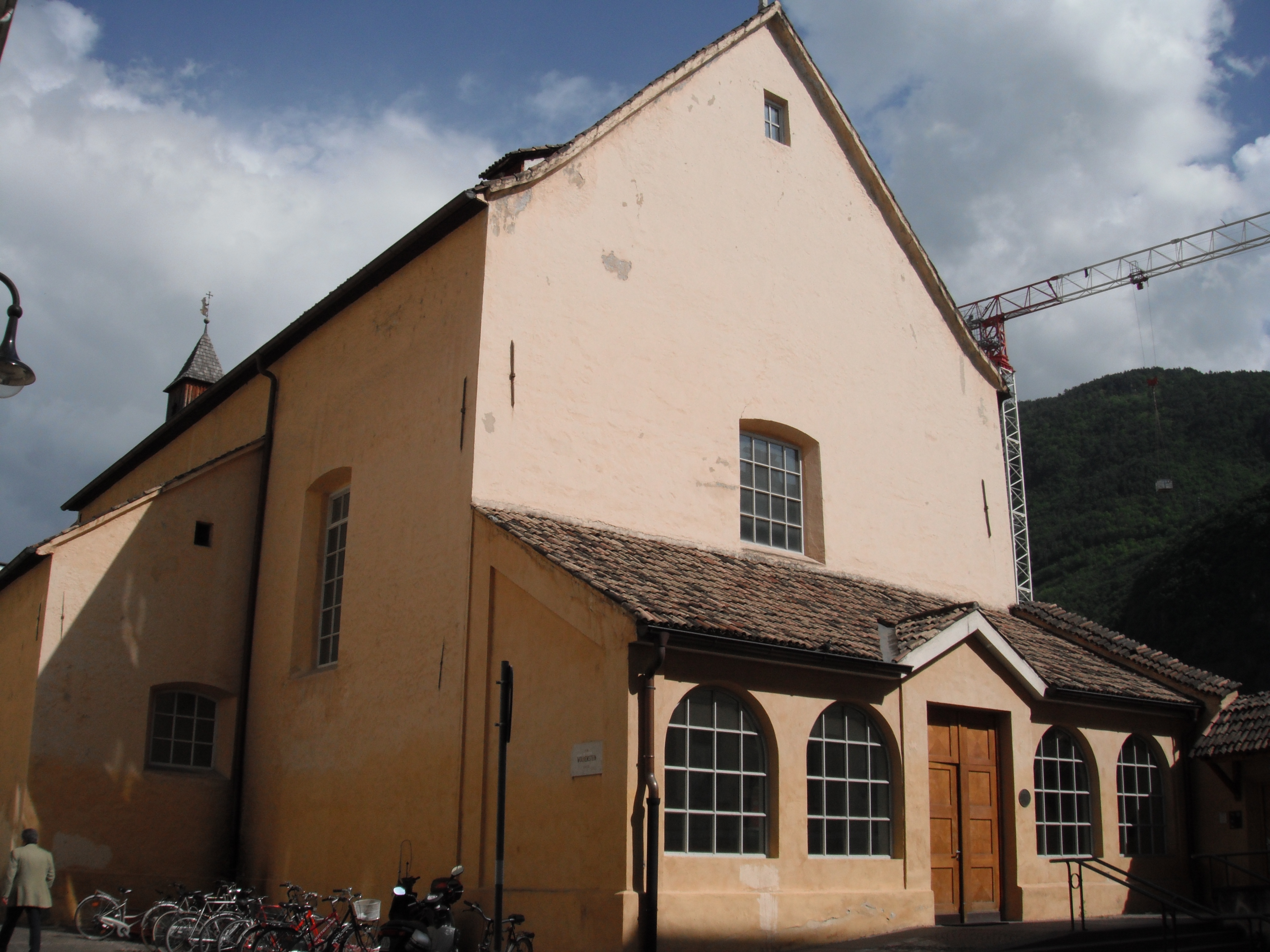 Capuchin Church, Bolzano, South Tyrol, Italy. Facade